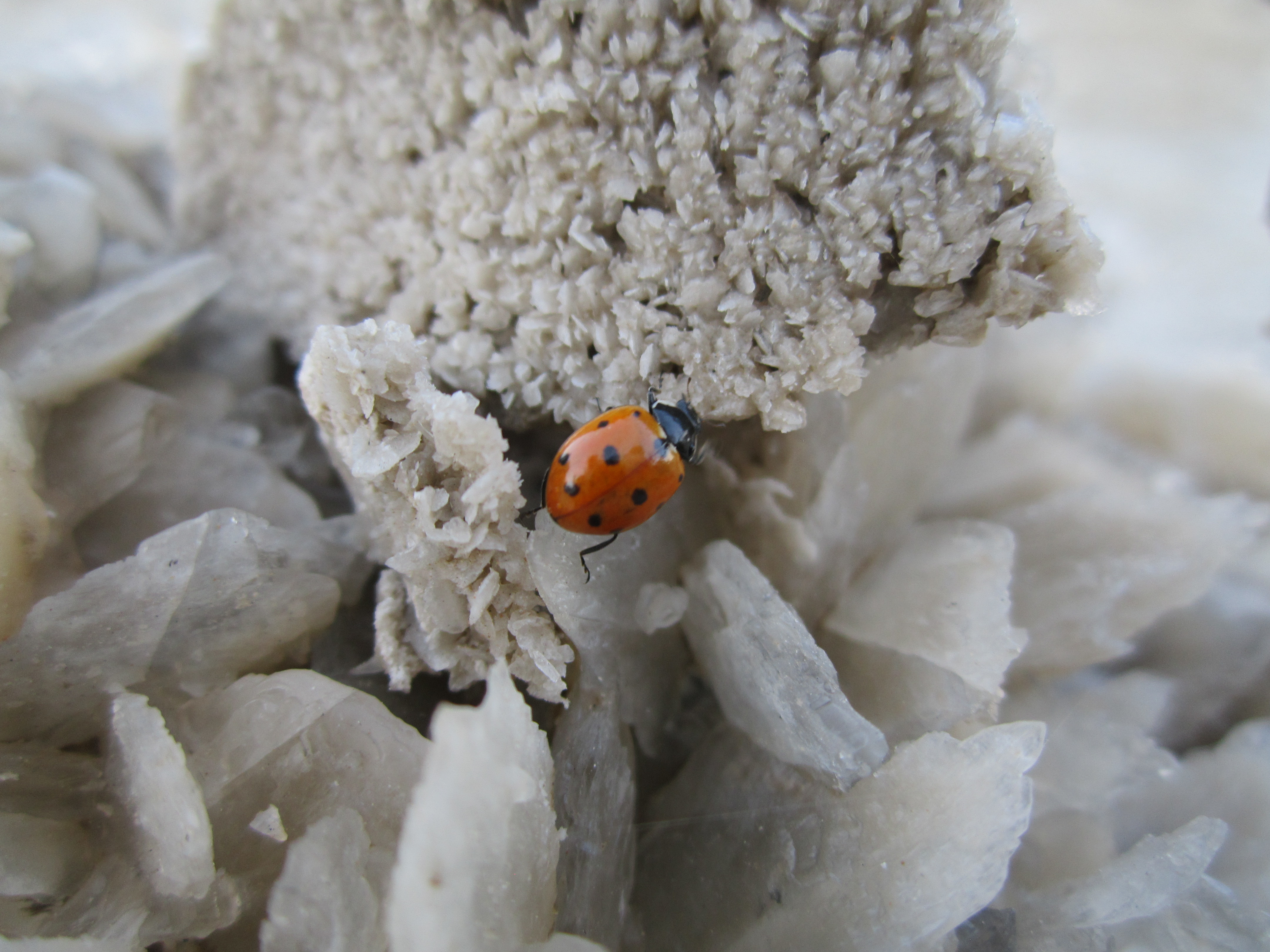 Ladybug on rock salt in the Dead Sea